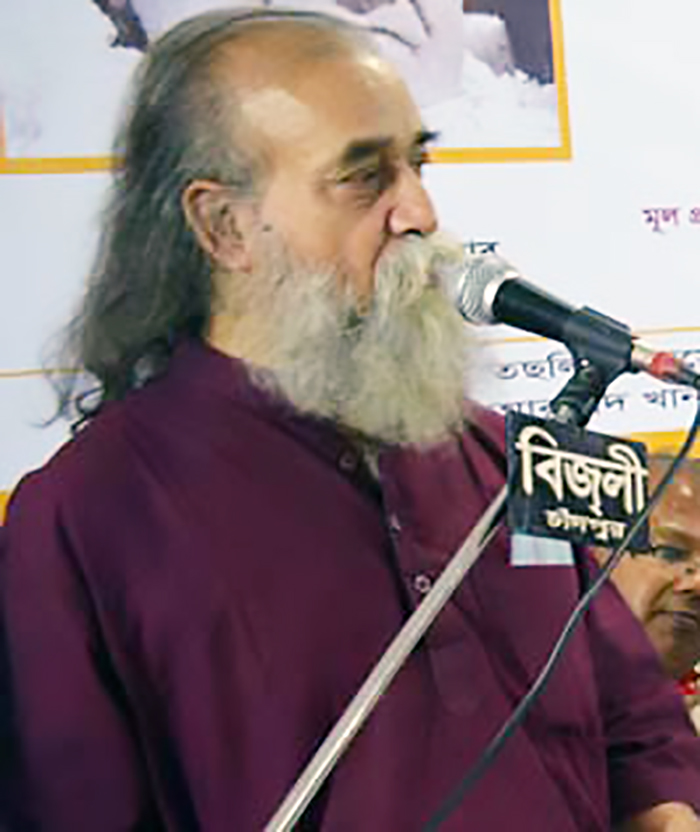 Ashim Saha speech in chandpur